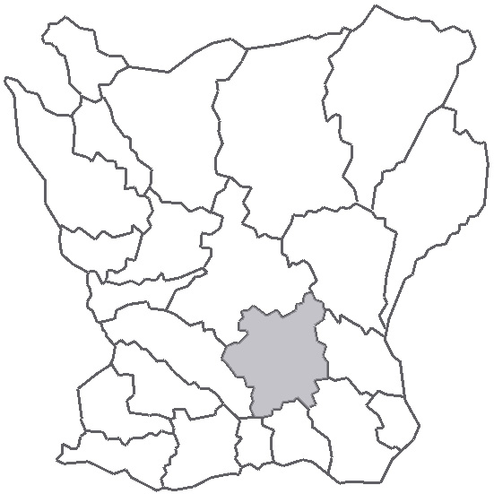 Map describing the location of Fär Hundred in the province of Skåne, Sweden.